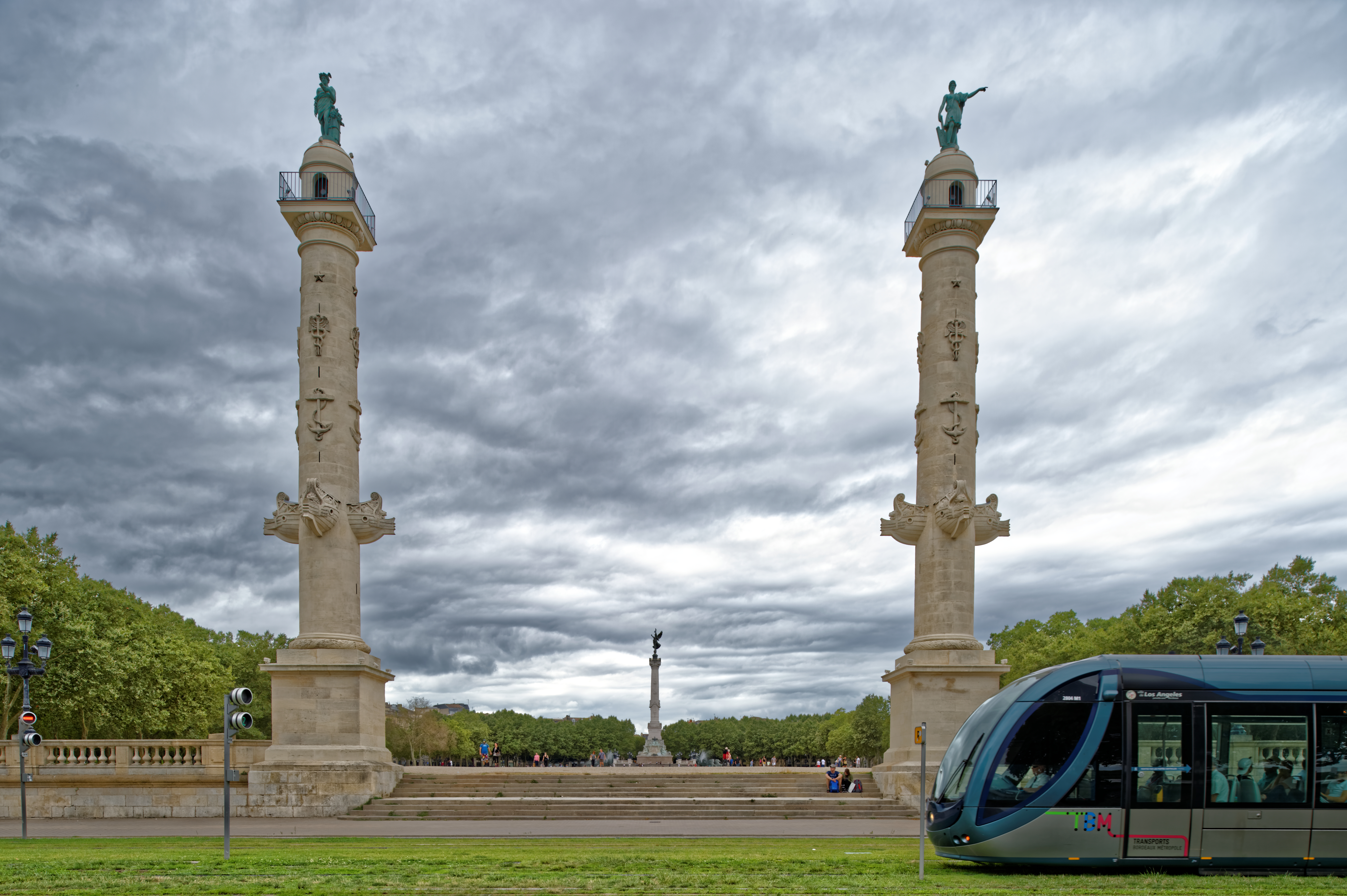 The rostral columns of the Place des Quinconces, Bordeaux, France, with an incoming tramway.